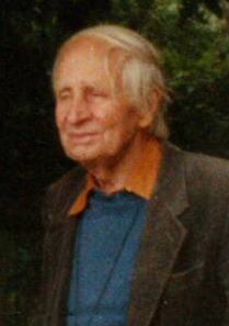 Van Dijk visiting with Sir Laurens van Der Post, CBE at Bollingen Tower, the home of Carl Jung on the shore of Lake Zürich in 1994.